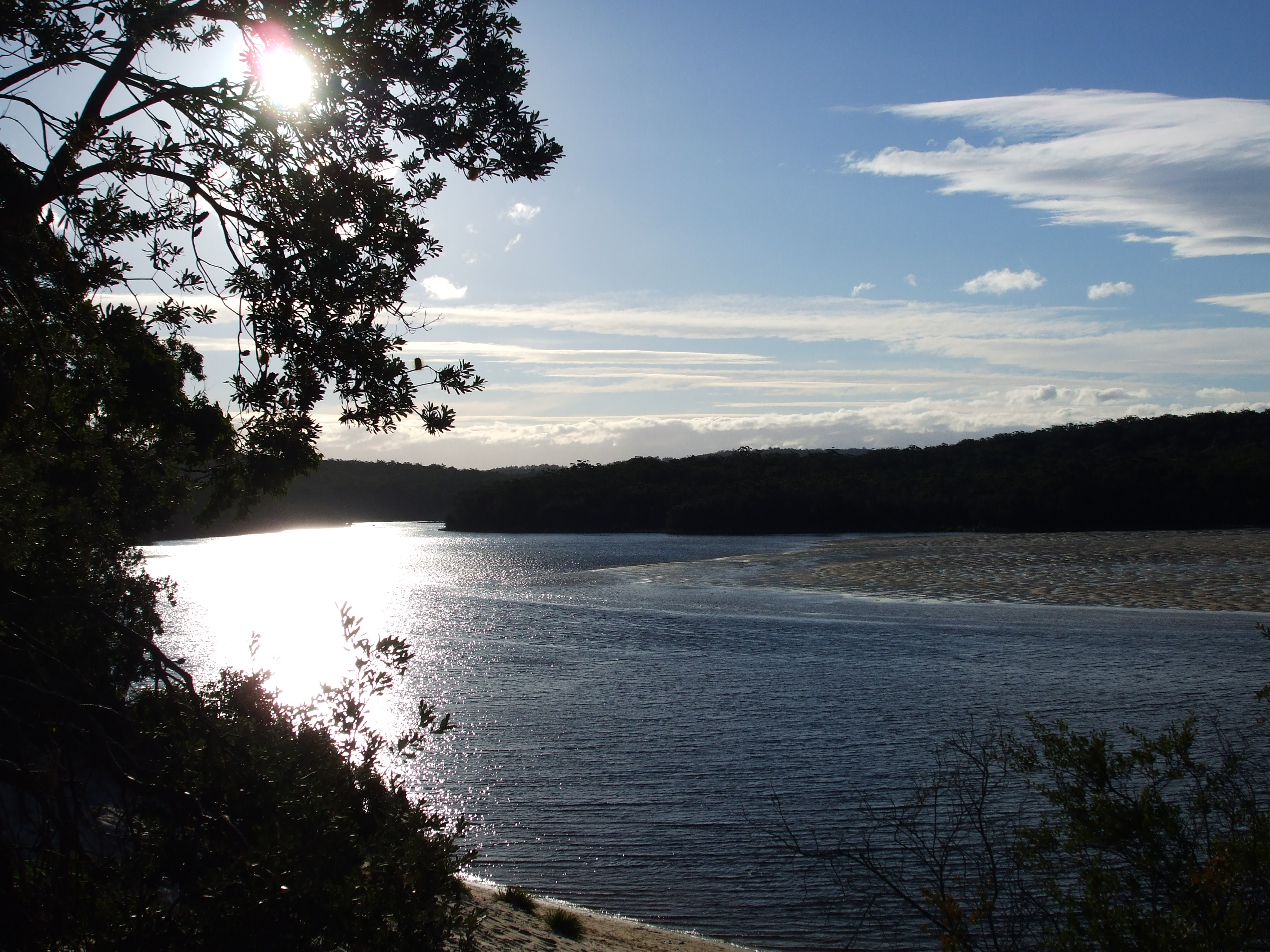 Author: Jon Bragg